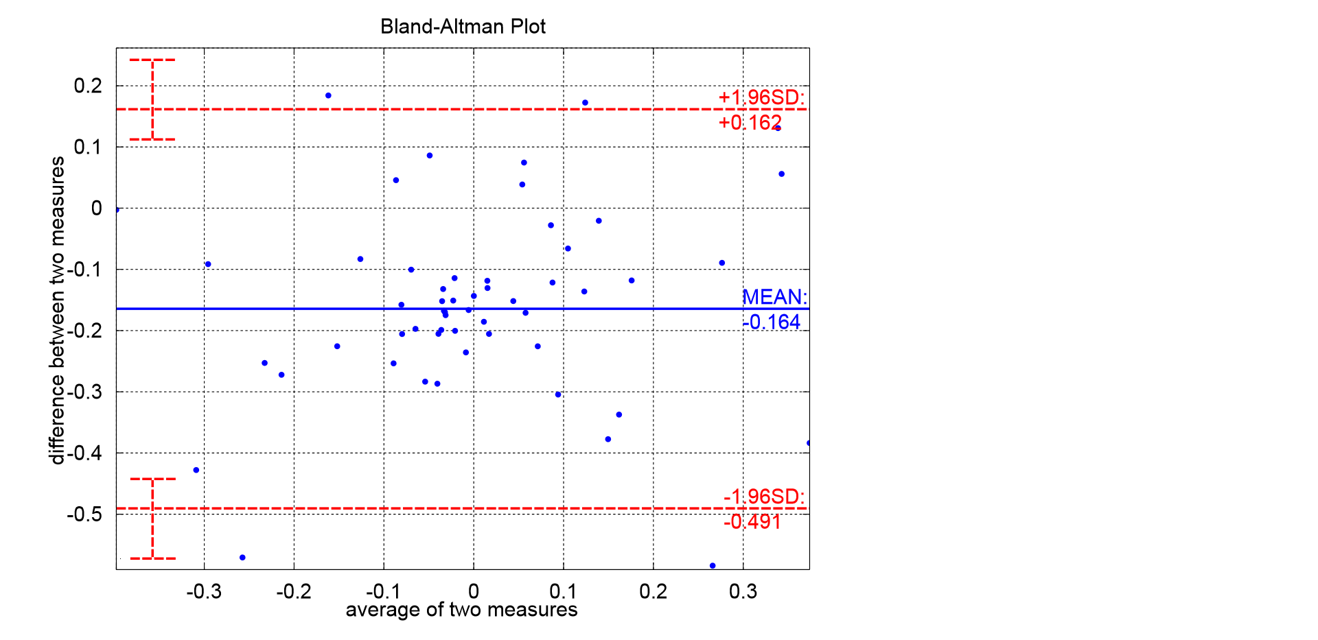 This shows a Bland-Altman Plot with 95% confidence intervals on the limits of agreement (LOA) calculated using 2 sided tolerance factors.